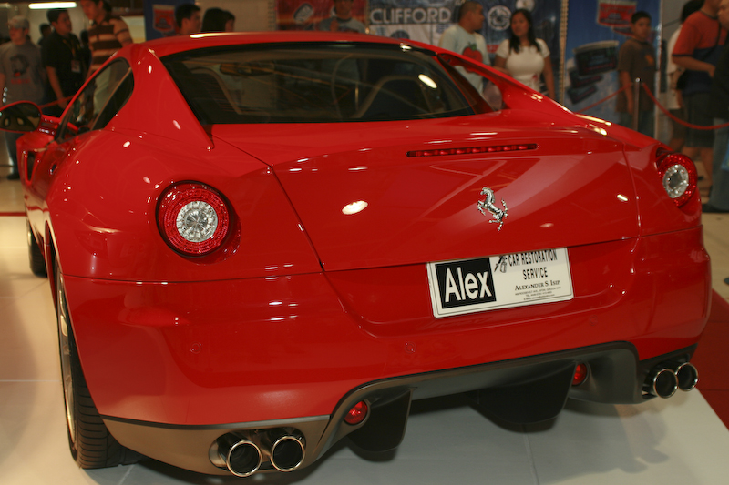 Ferrari 599GTB rear view.